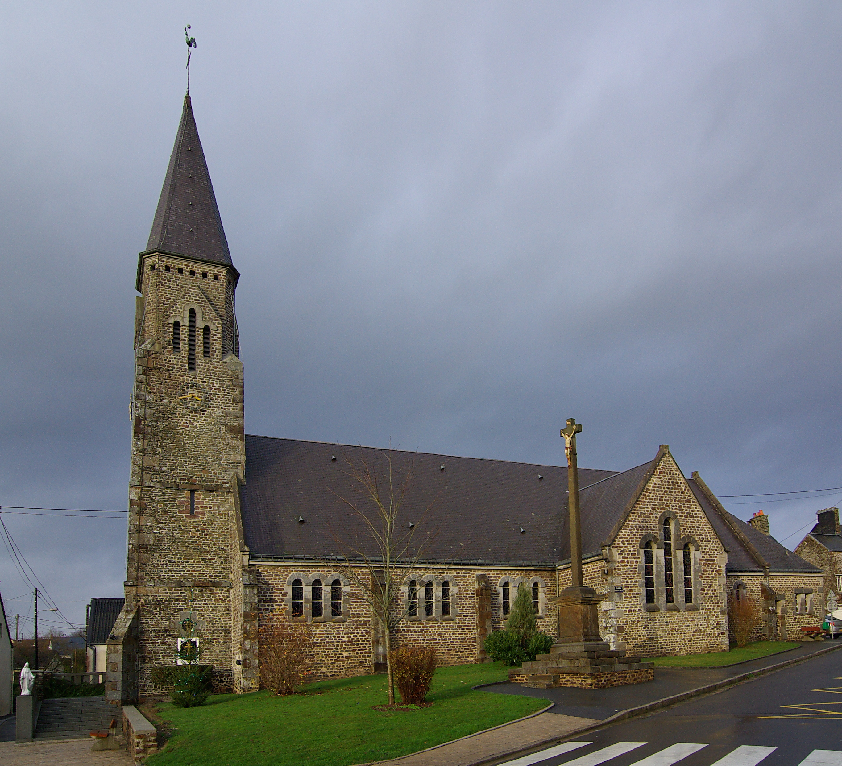 Saint-Denis-de-Méré's church called Saint Denis.